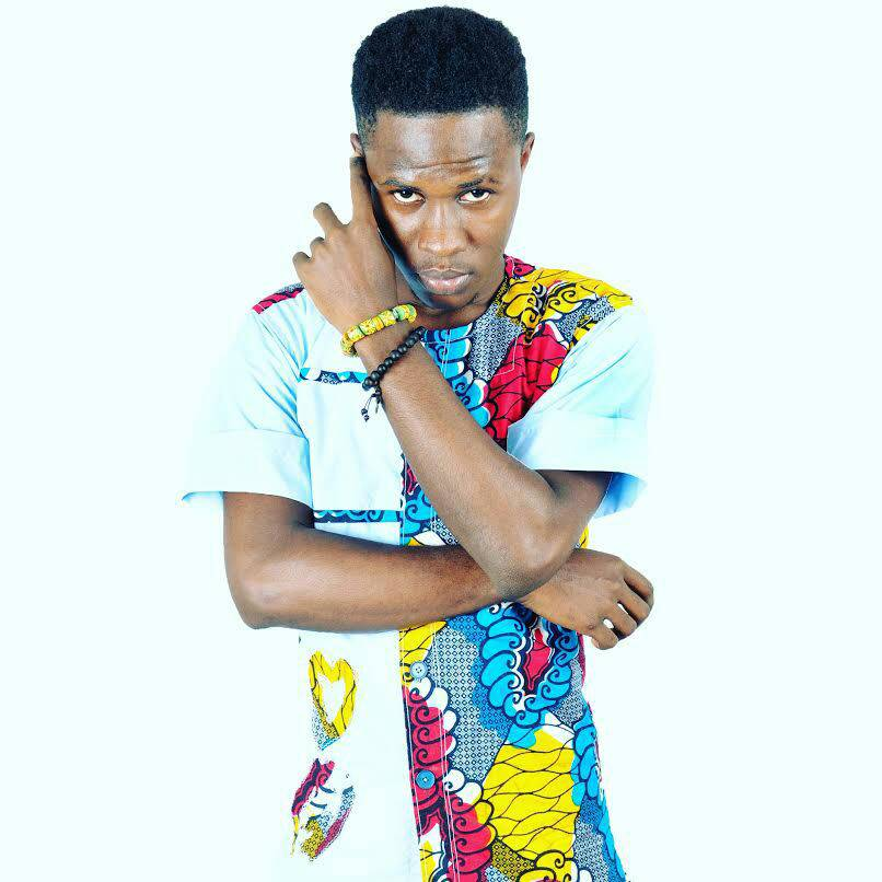 Kwame Baah photoshoot